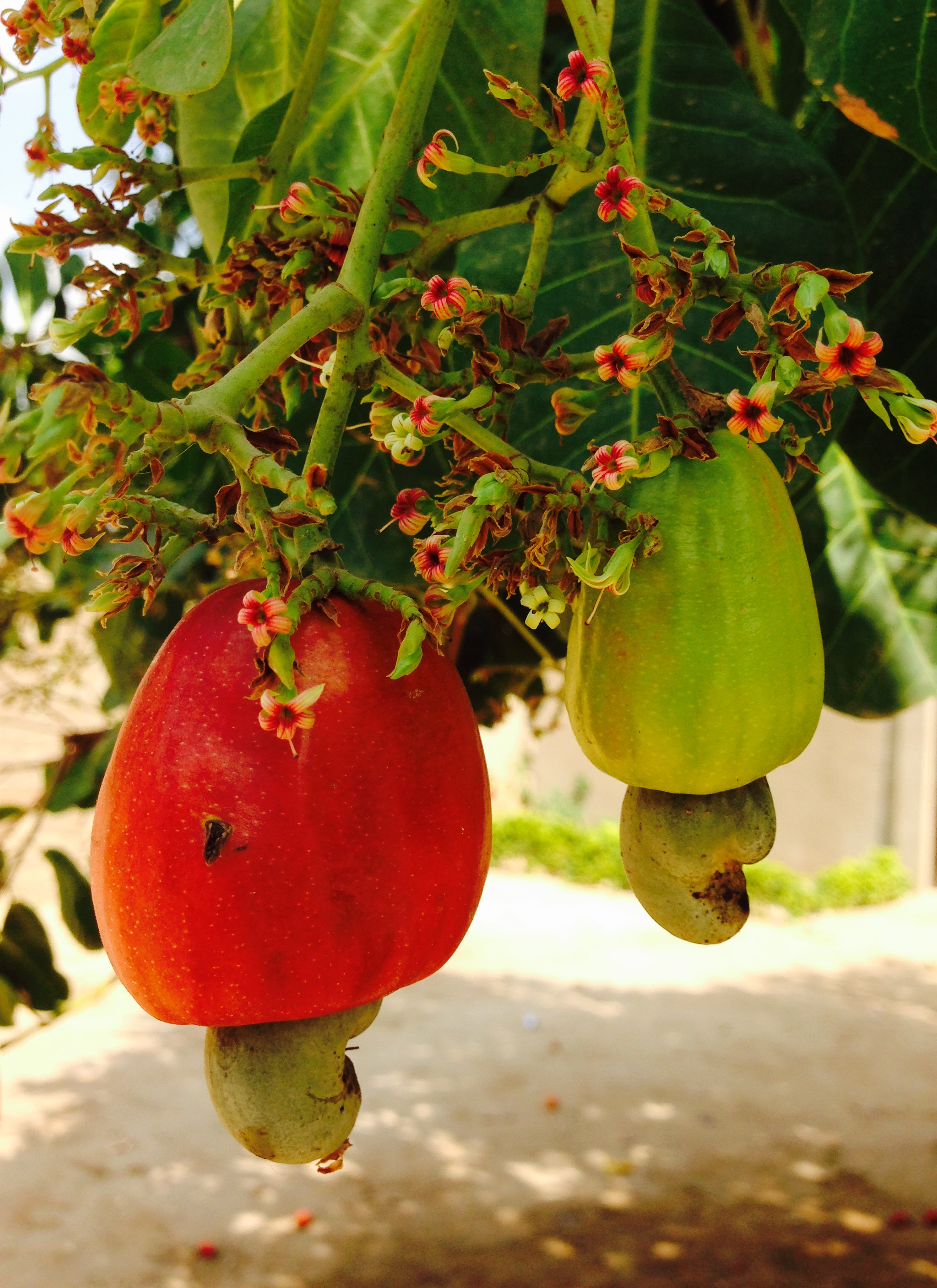 Cashew apple